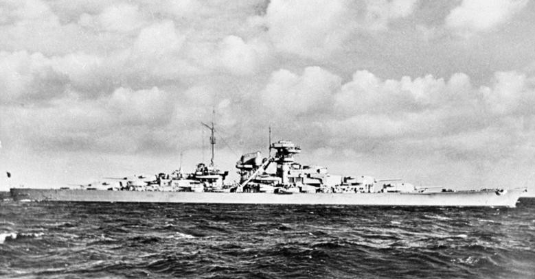 1940 ca.